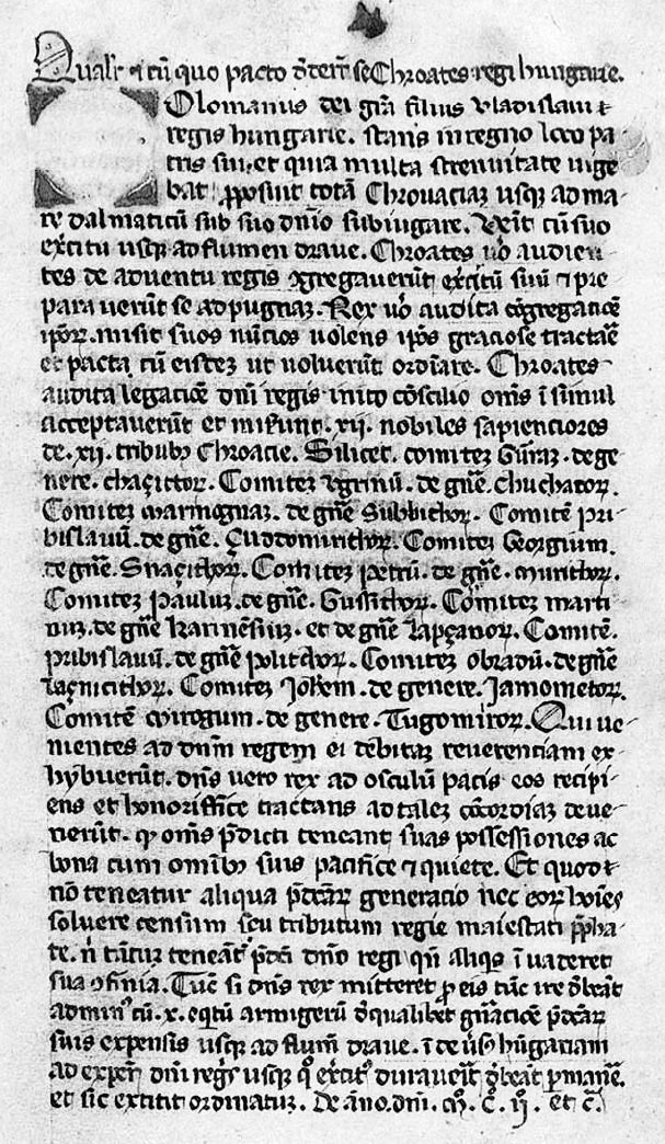 Photo of Pacta conventa (Croatia) (a.k.a. 'Qualiter'), from a Budapest museum. This photo was published in book "Tropismena i trojezična kultura hrvatskoga srednjovjekovlja" by Eduard Hercigonja, parts of are available on the internet.